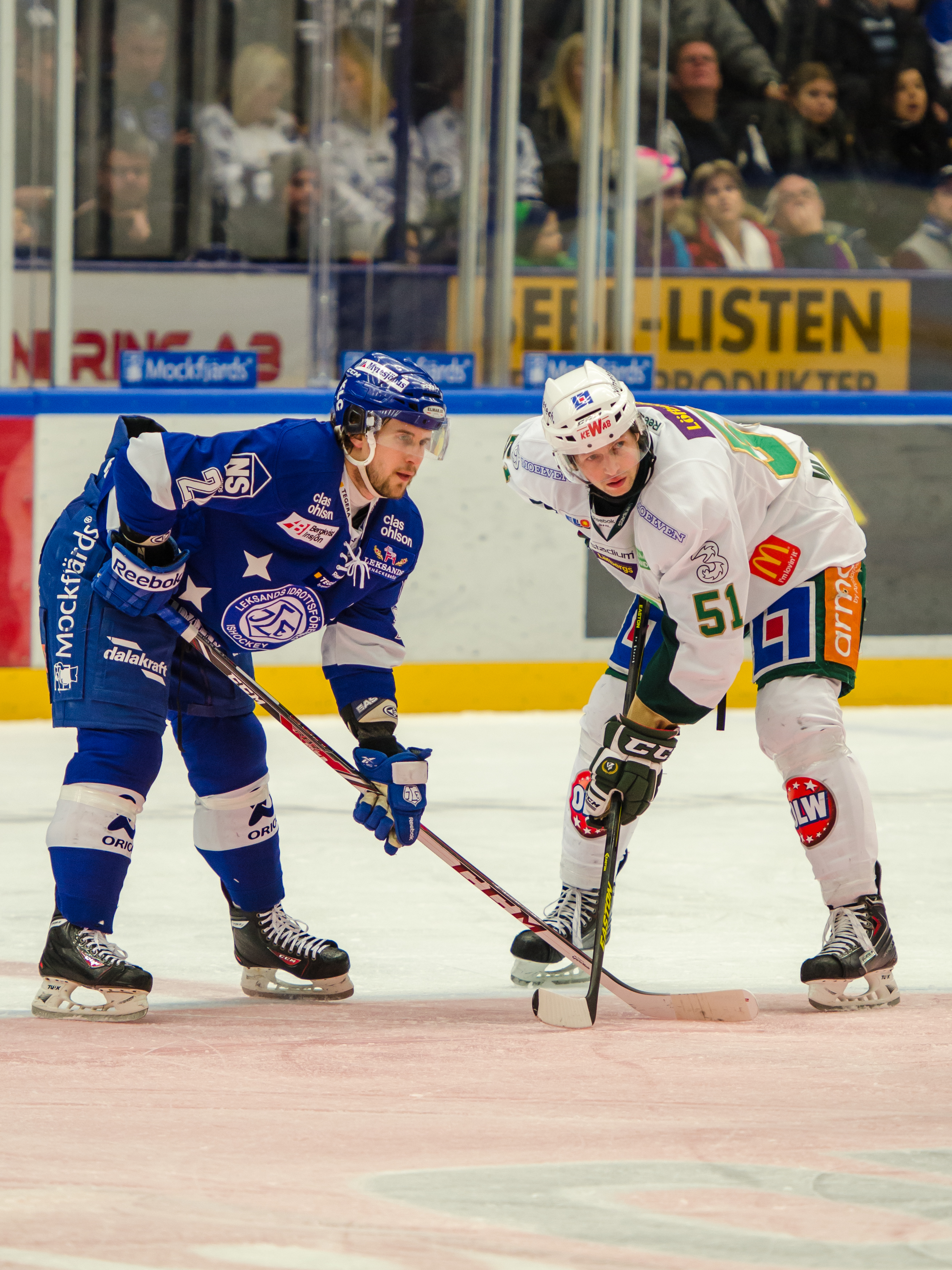 Ice hockey player Ryan Russell in Leksands IF (blue, left) and Rickard Wallin in Färjestad BK (right, white).